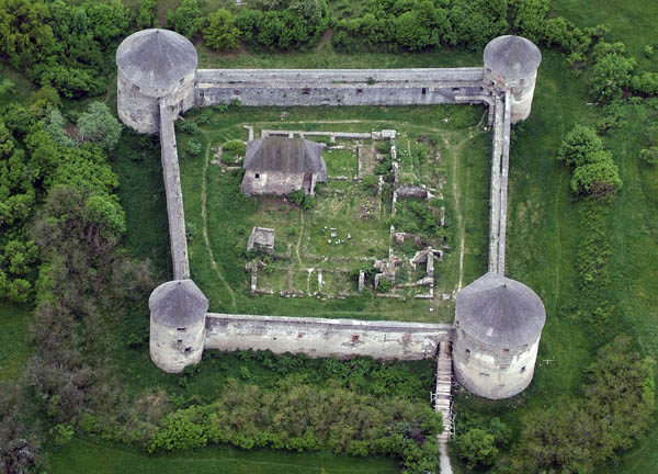 Bzovík Castle, Slovakia, aerial photography